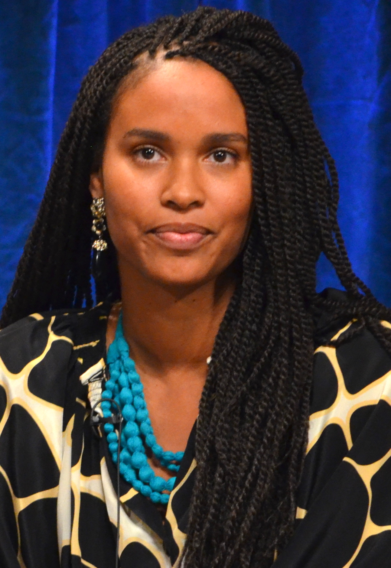 Joy Bryant at the Paleyfest 2013: Parenthood.